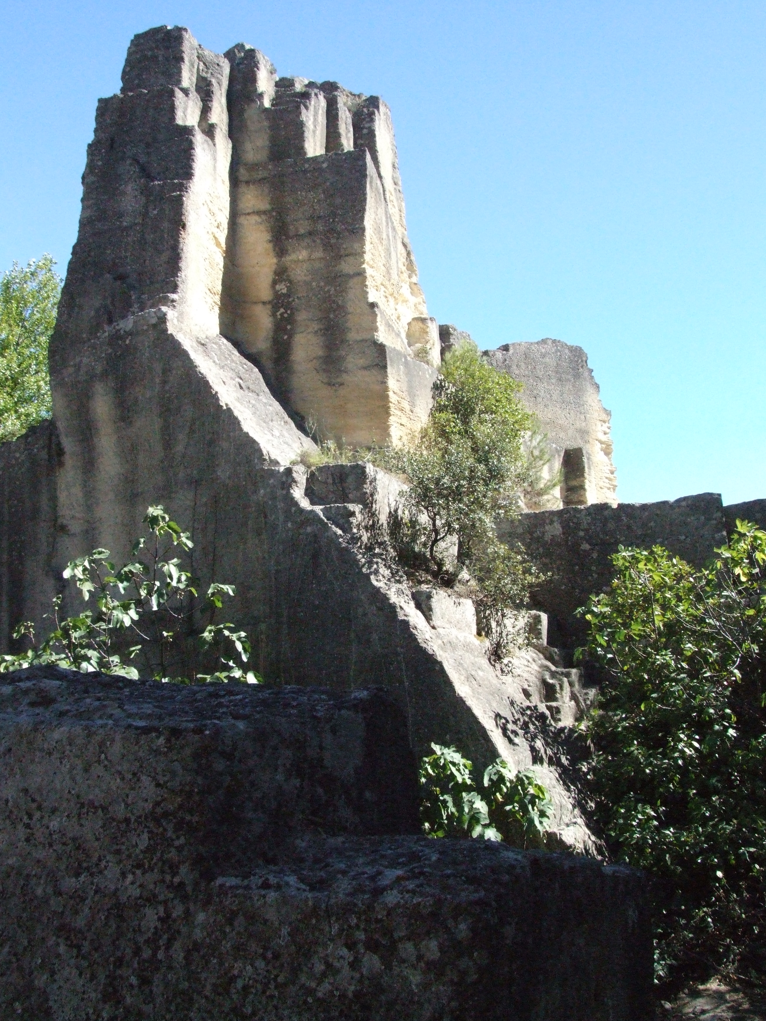 The commune of Junas, ( post code is F30250 and INSEE 30136) is situated north of the River Vidourle, south of Sommières in the departement of Gard. in the region Languedoc-Roussillon in southern France.The mediaeval village centre is similar to its neighbours, but the commune is noted for its quarry which dates from Roman times. The Quarry of Bon Temps is in the combe of the same name. The hard limestone was suitable for constructions, such as the bridge at Sommières, which for 2000 years has with stood the Vidourlades. The spectacular rock shapes make if a popular event venue hosting stone cutting workshops, and the Jazz à Junas concerts.